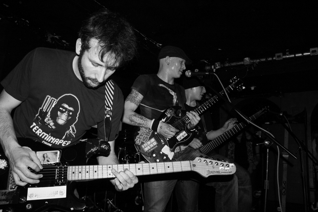 InMe-Gazz 2010 playing with new guitarist (Gary 'Gazz' Marlow)